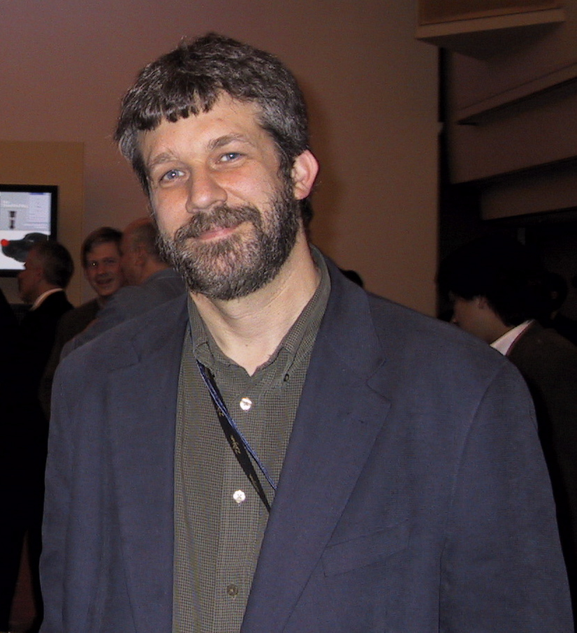 Picture of Charlie Catlett (created and uploaded by Charlie Catlett)